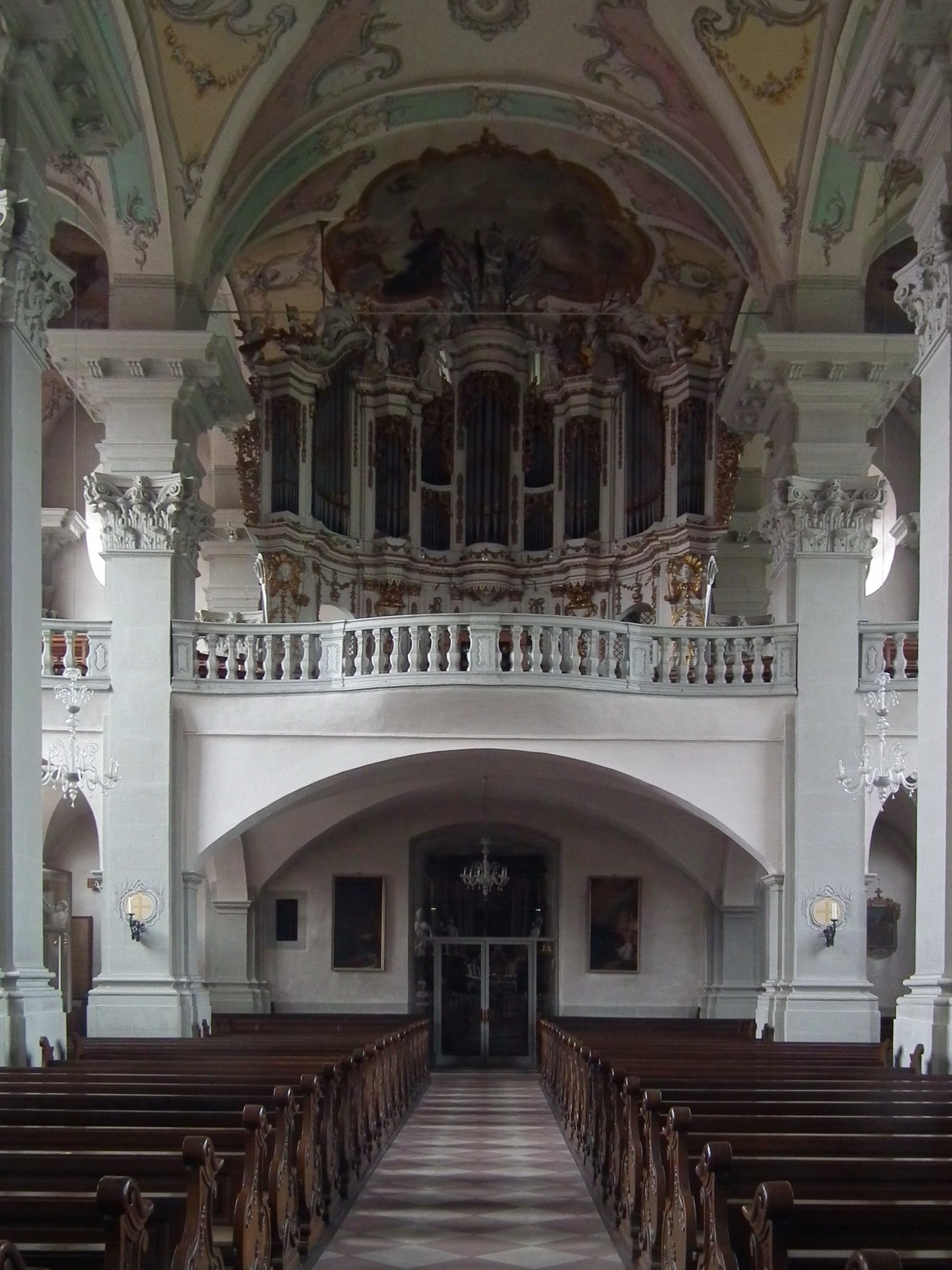 Church of St GangulphusNative nameGangolfikircheLocationAmorbach, Lower Franconia, GermanyCoordinates49° 38′ 43.87″ N, 9° 13′ 12.47″ E